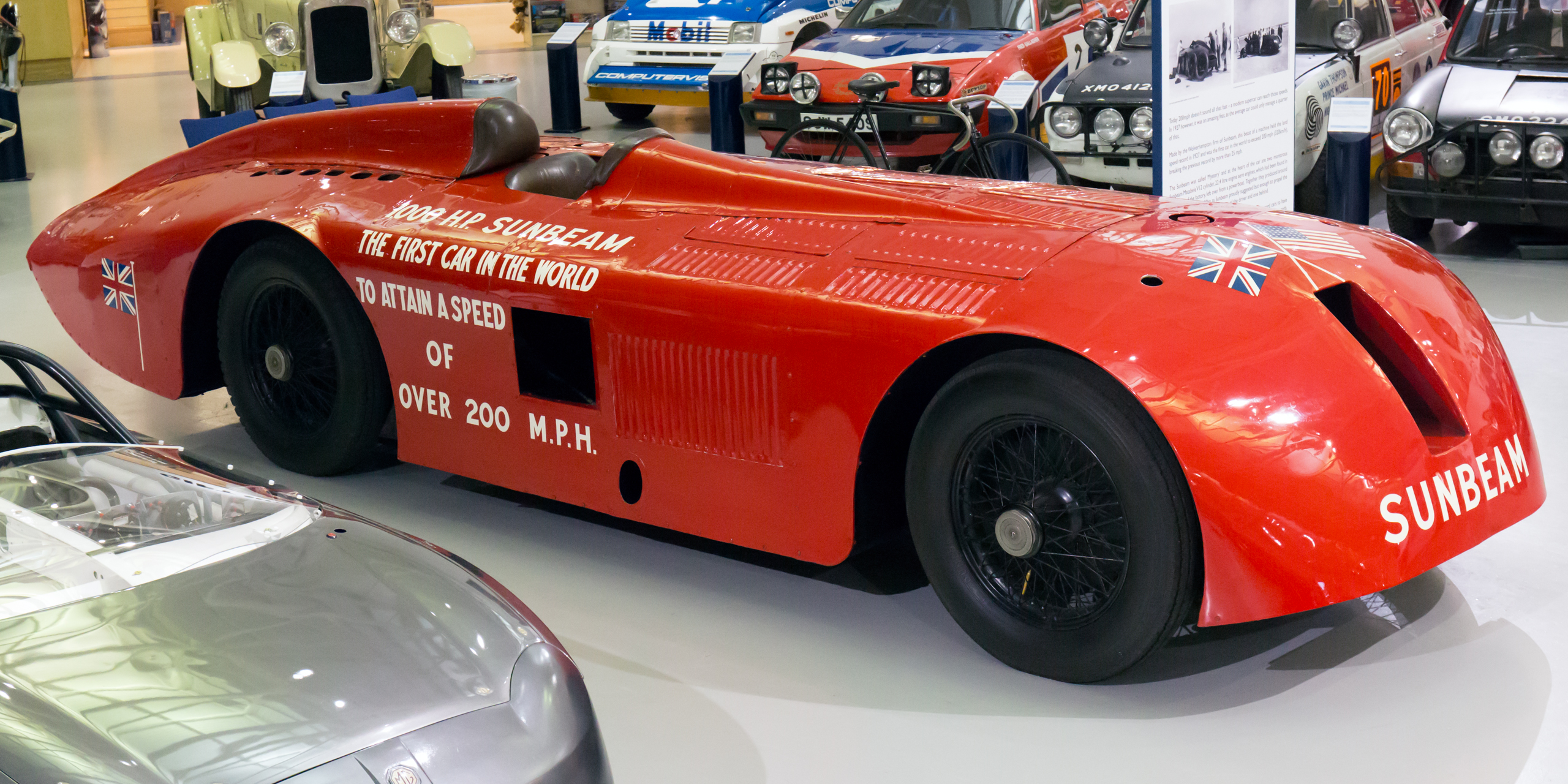 1927 Sunbeam 1000hp